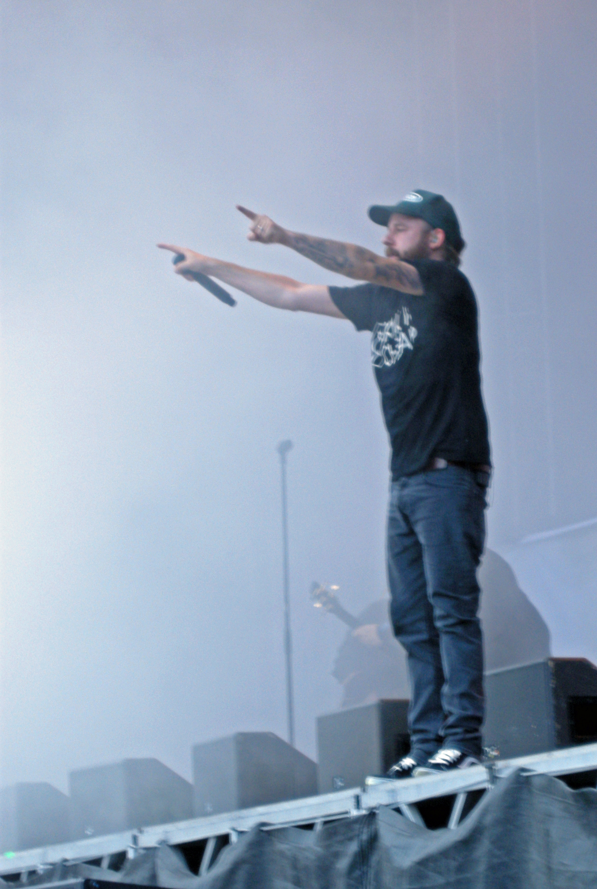 Anders Friden with In Flames at Sonisphere Festival, Stockholm, Sweden 2011